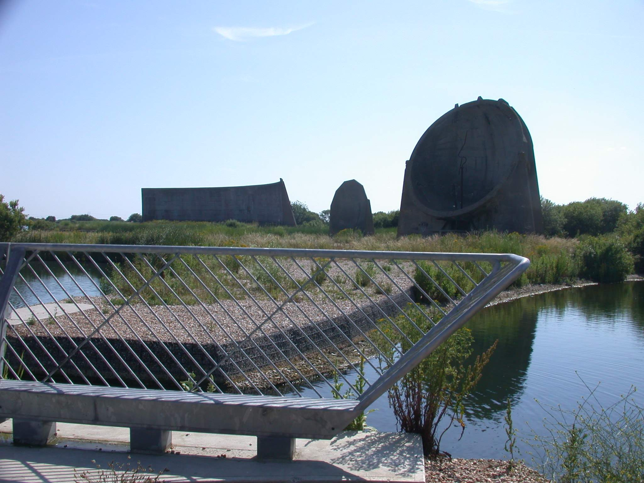 Acoustic mirrors in Denge, Kent, England, with the swing bridge visible in the foreground.